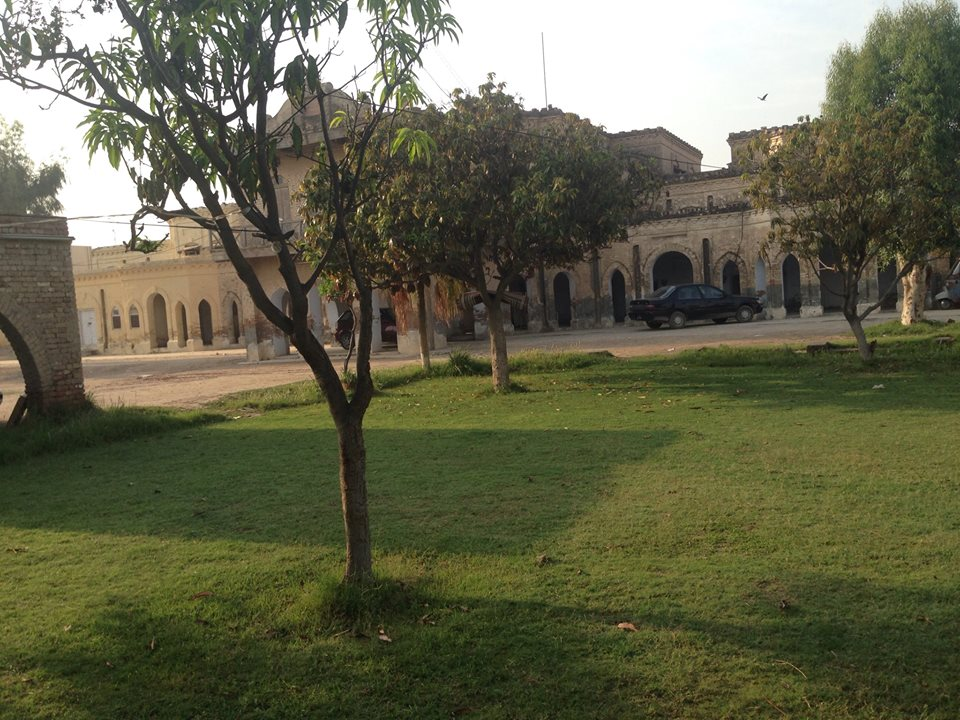 ALLAH NAWAZ CASTLE ALLAH NAWAZ CASTLE of Nawab Ikramullah Khan the Nawab of Dera